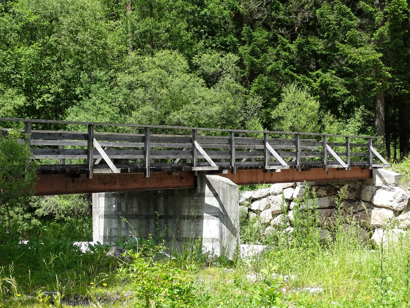 Bridge over the Sava Dolinka in Log (Kranjska Gora)